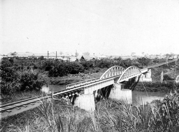 One of the railway bridge over the river Djatiroto State Railways, East Java